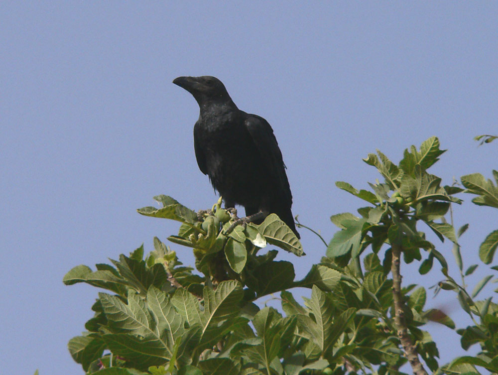 Brown-necked Raven Corvus ruficollis on fig tree, Timia, Aïr Mountains, Niger